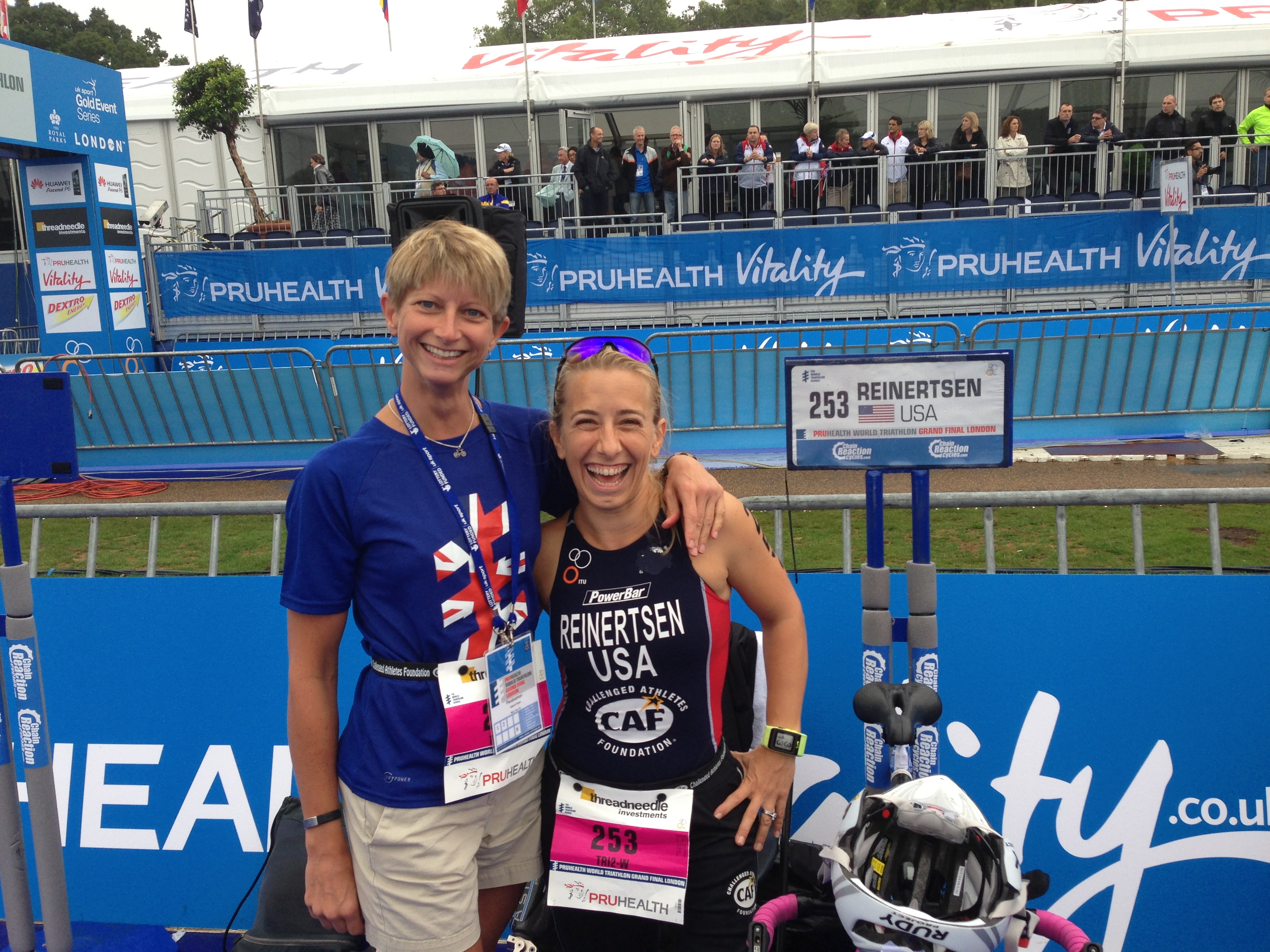 Cortney Martin (left) and Sarah Reinersten at the 2013 ITU Paratriathlon Worlds